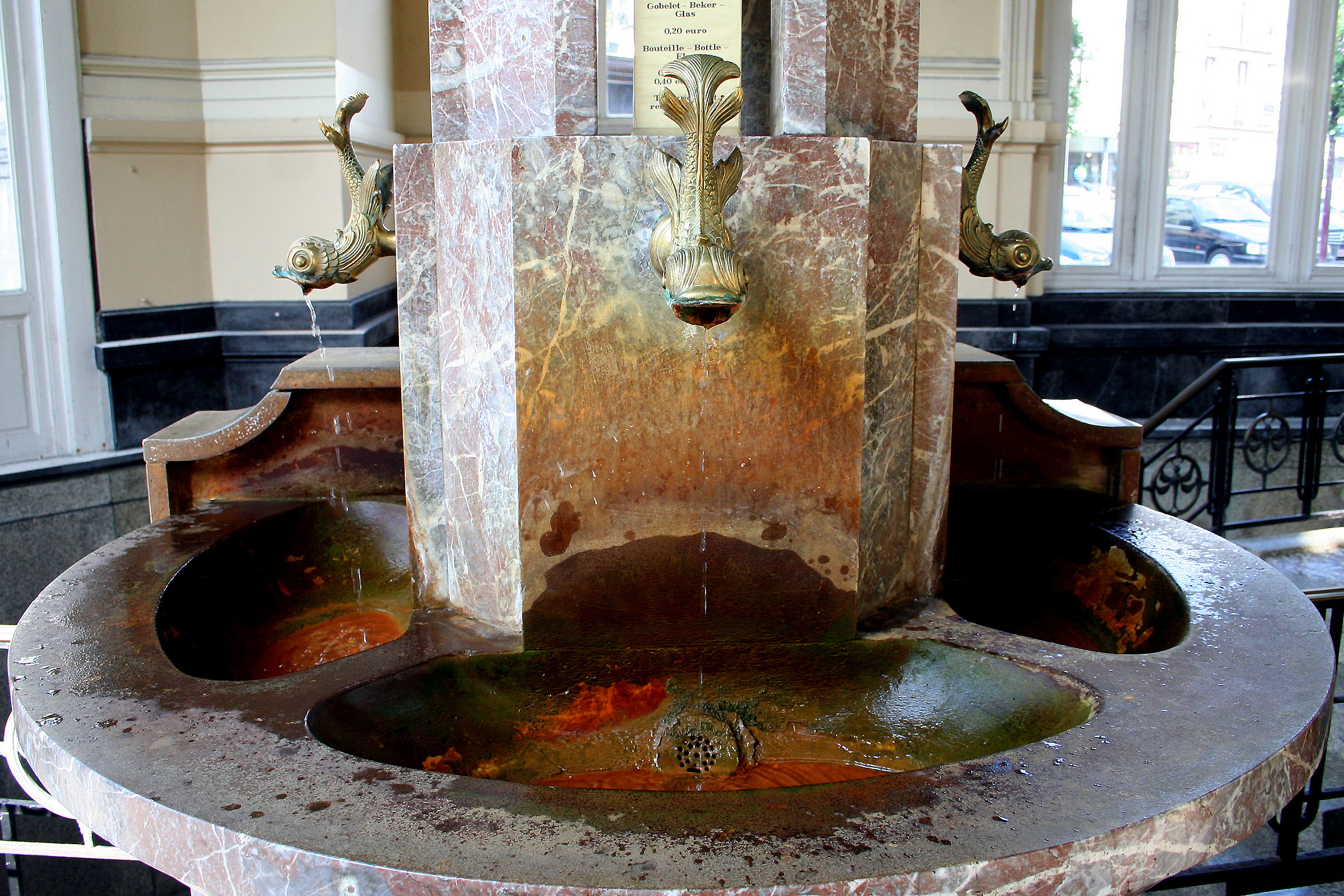 Spa (Belgium), internal fountains of Tzar Peter the Great's spring.